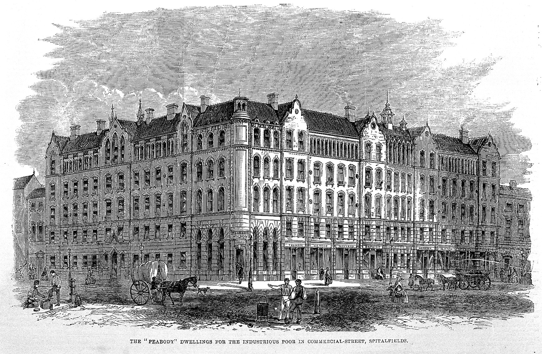 The "Peabody" dwellings for the industrious poor, in Commercial Street, Spitalfields, London. A wood-engraving published in the Illustrated London News, July 1863 (shortly before the building was opened). Architect: H. A. Darbishire. Engraver unknown. Illustrated London News, 18 July 1863, p. 73. General Collections Keywords: Poverty